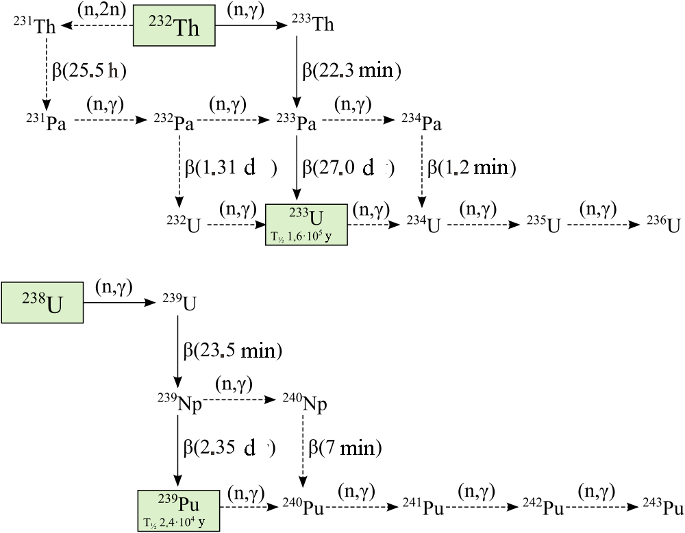 uranium-plutonium and thorium-uranium cycles